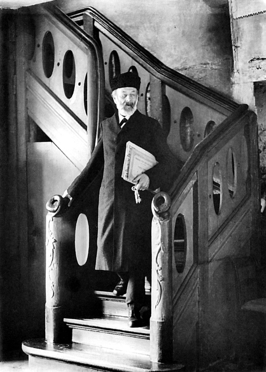 Emanuel Kemper (1844-1933), German organ maker and organist